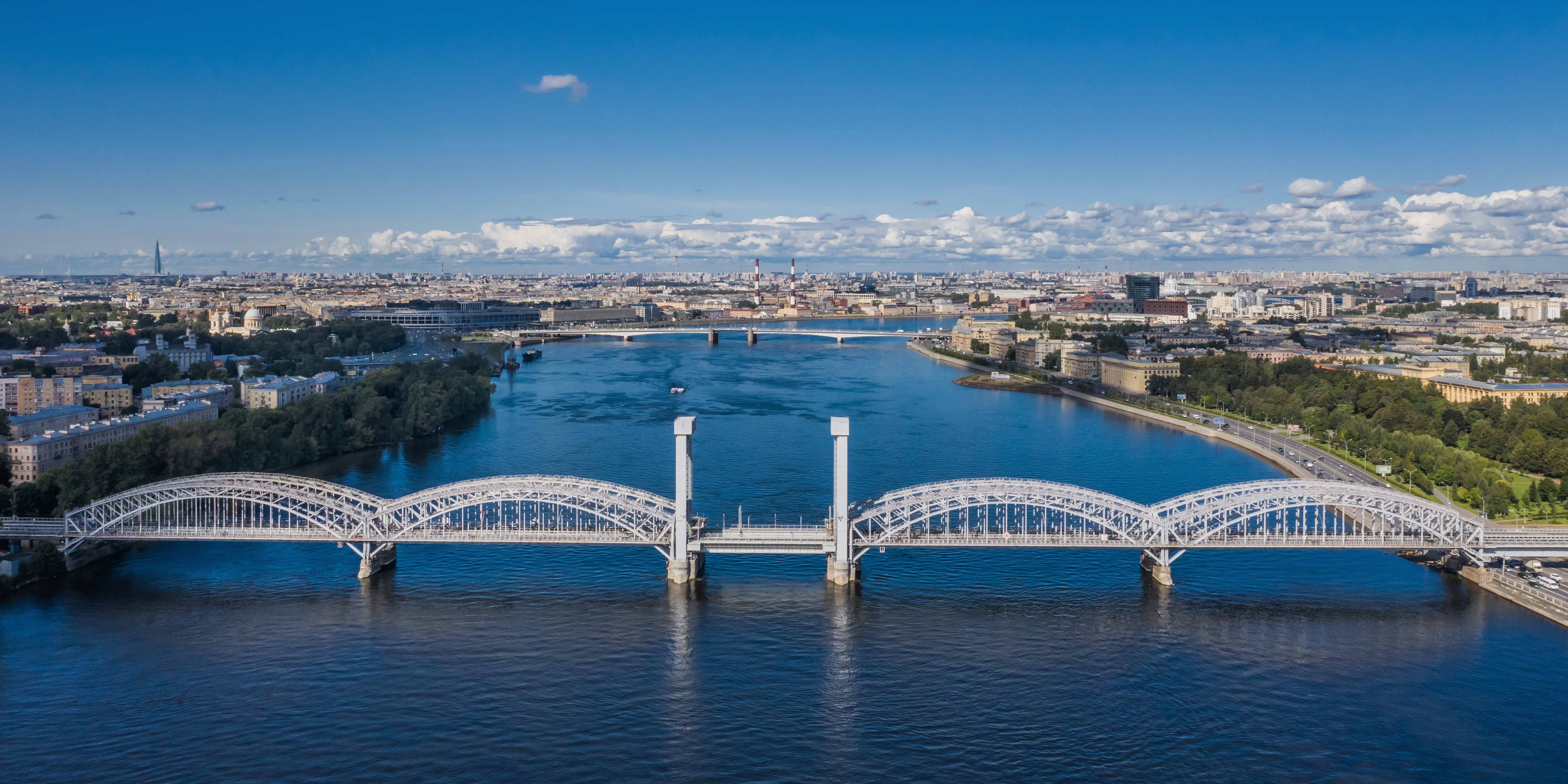 Neva River and Finland Railway Bridge in Saint Petersburg, Russia: aerial photo